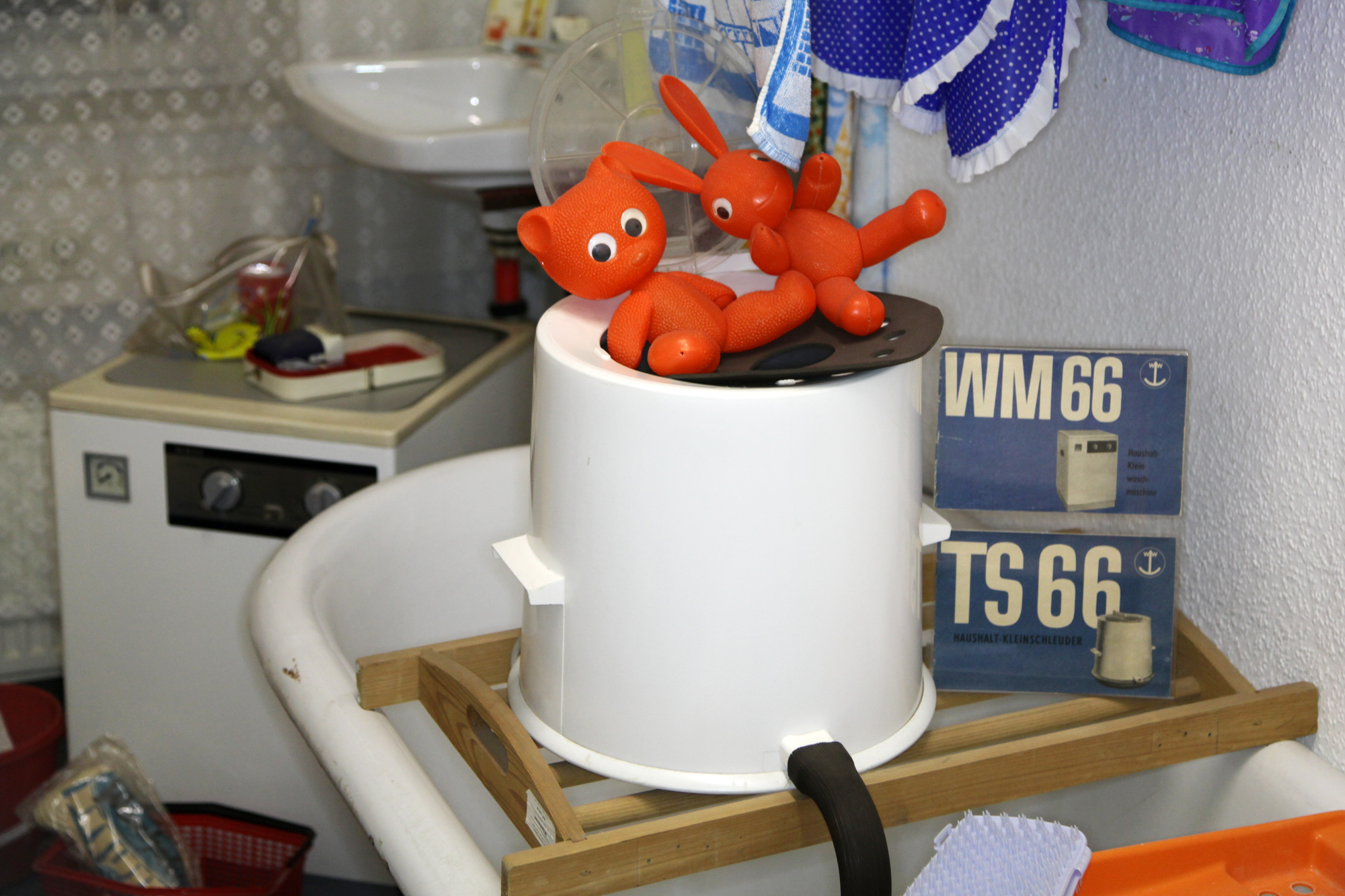 spin dryer TS 66 from former East Germany, 1500 RPM, for 4.4 lb of dry laundry